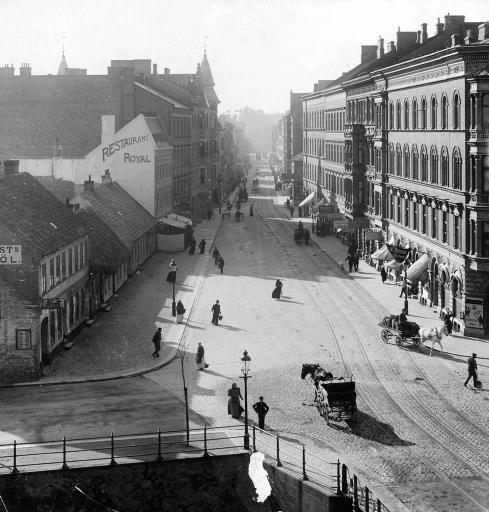 View over Södra Förstadsgatan street in the city of Malmo in the 1890s. The picture is made throught albumen print.